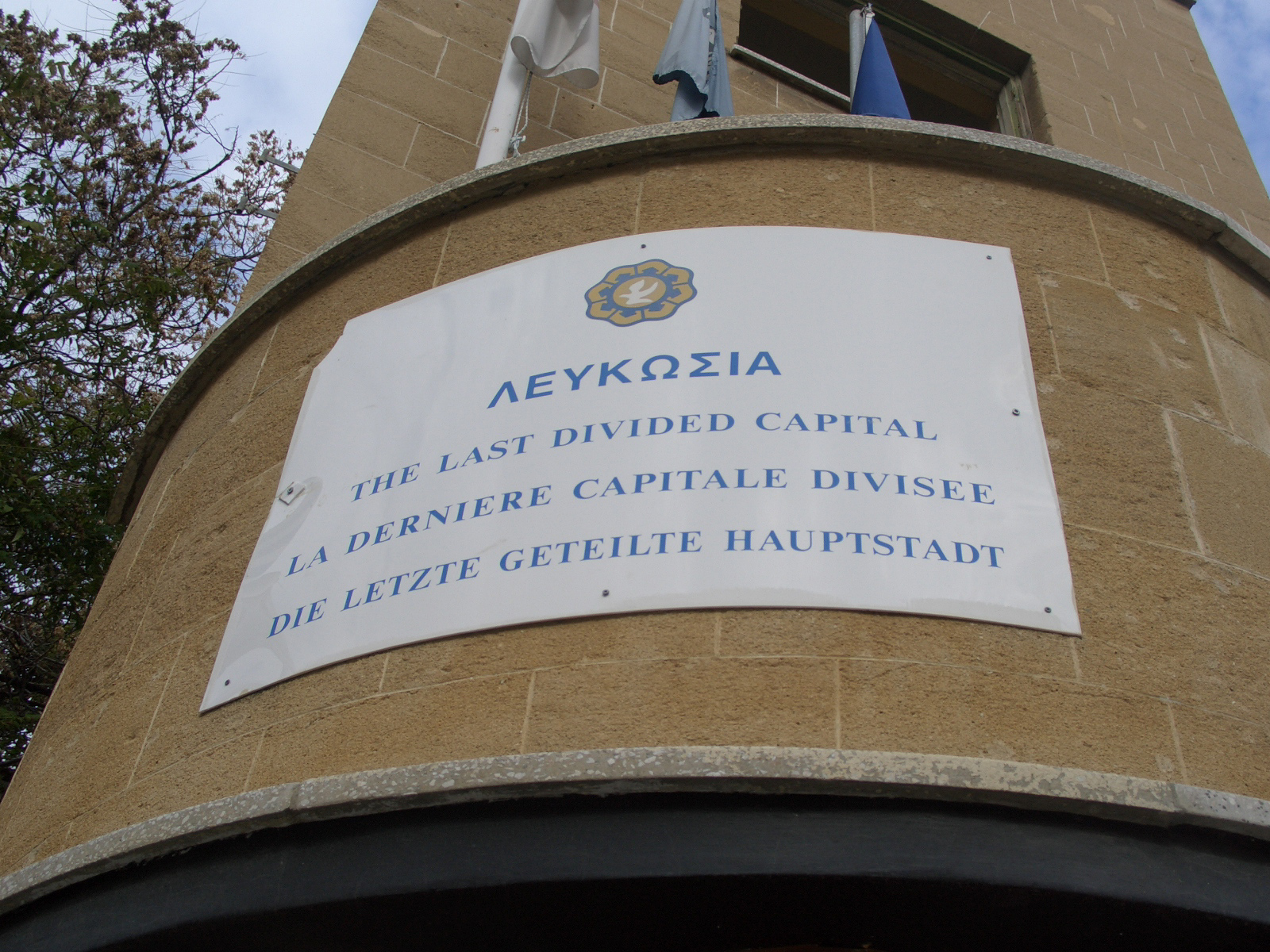 Sign in Nicosia (Lefkosia) in Ledra Street, near the Green Line dividing the Greek Cypriot part of Cyprus from the Turkish-occupied part.